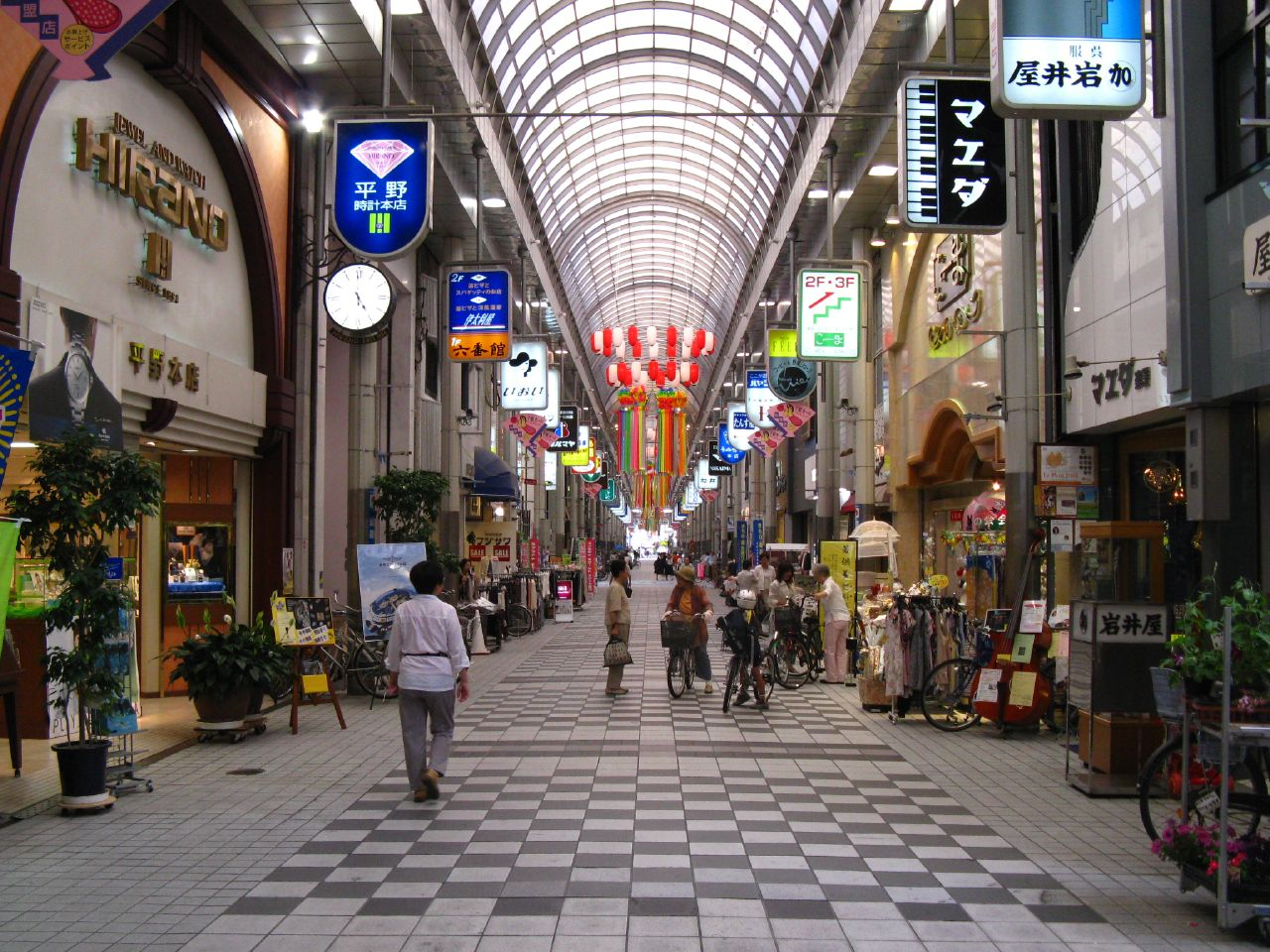 Nikaimachi in Himeji, Hyogo pref., Japan.